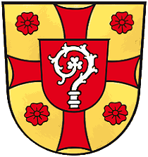 Coat of Arms of Adelschlag